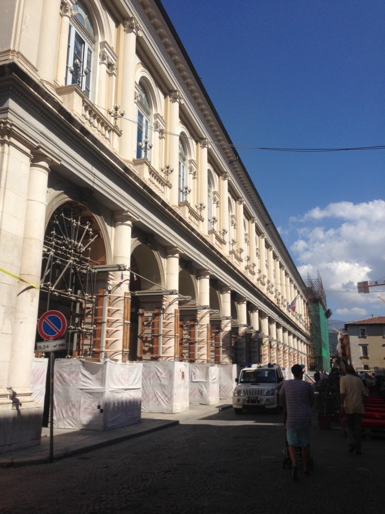 L'Aquila